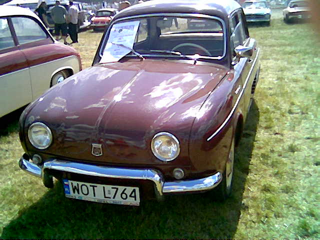 Renault Dauphine. Picture taken by mobile phone